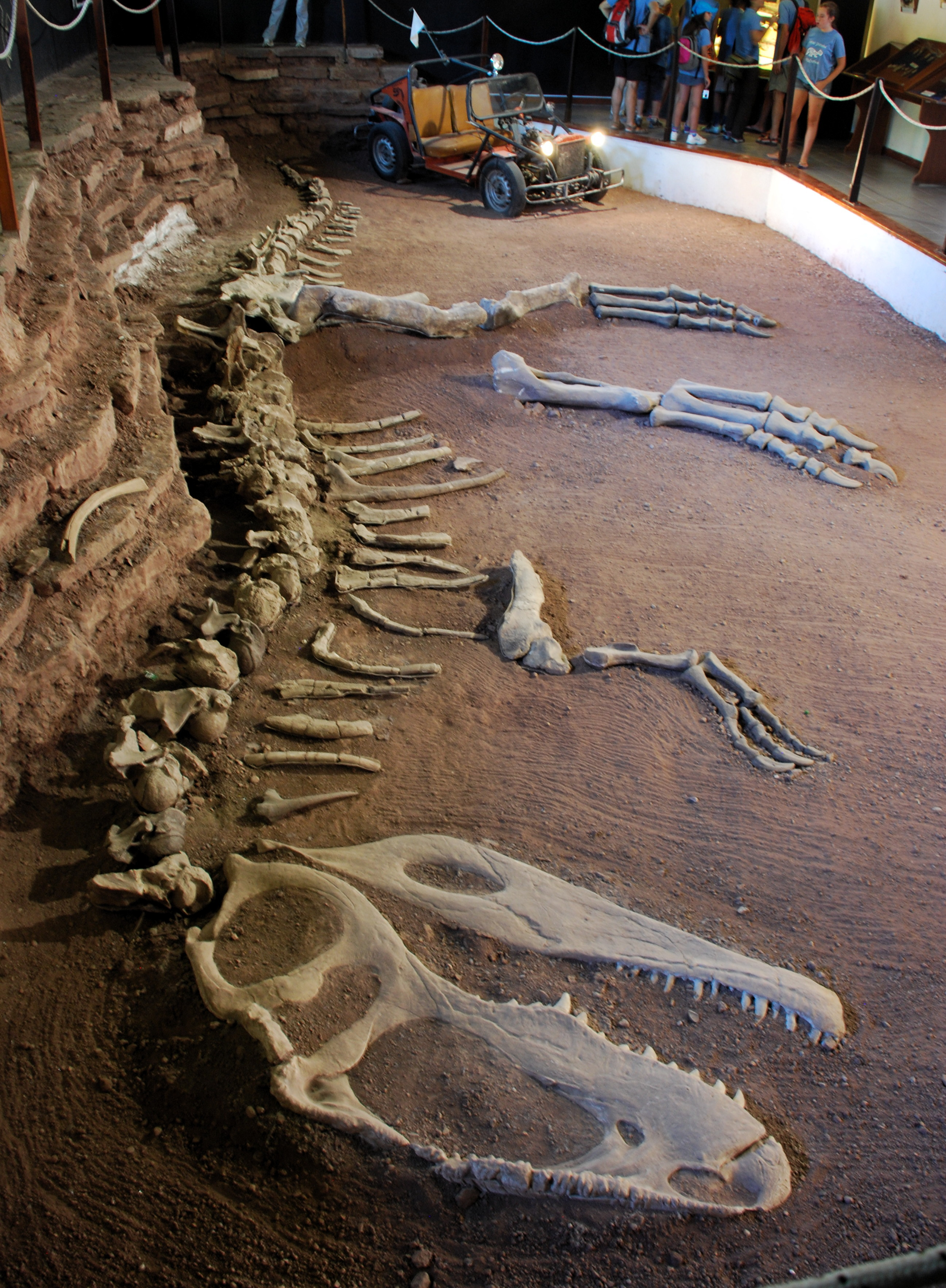 The Natural Science Museum at El Chocón, in the northwestern Argentine Patagonia (the Comahue region). Fossil of Giganotosaurus carolinii